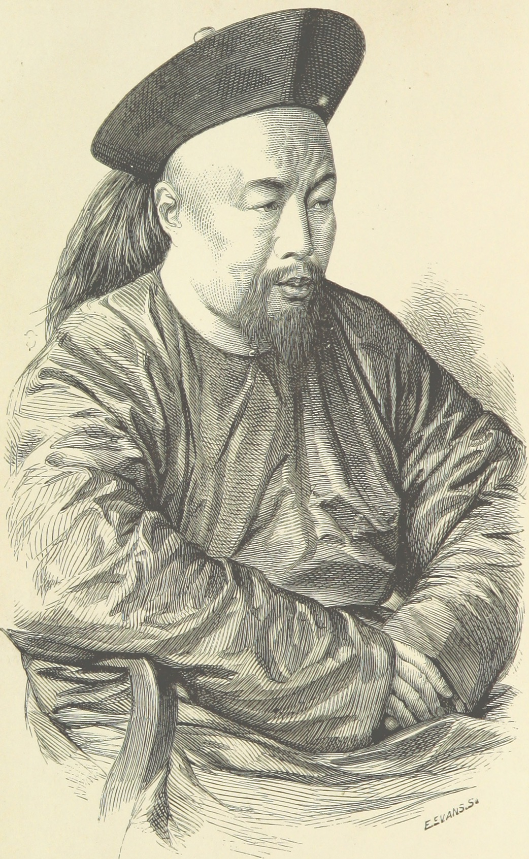 Commissioner Yeh